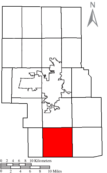 Made by the US Census and altered by myself to highlight the township